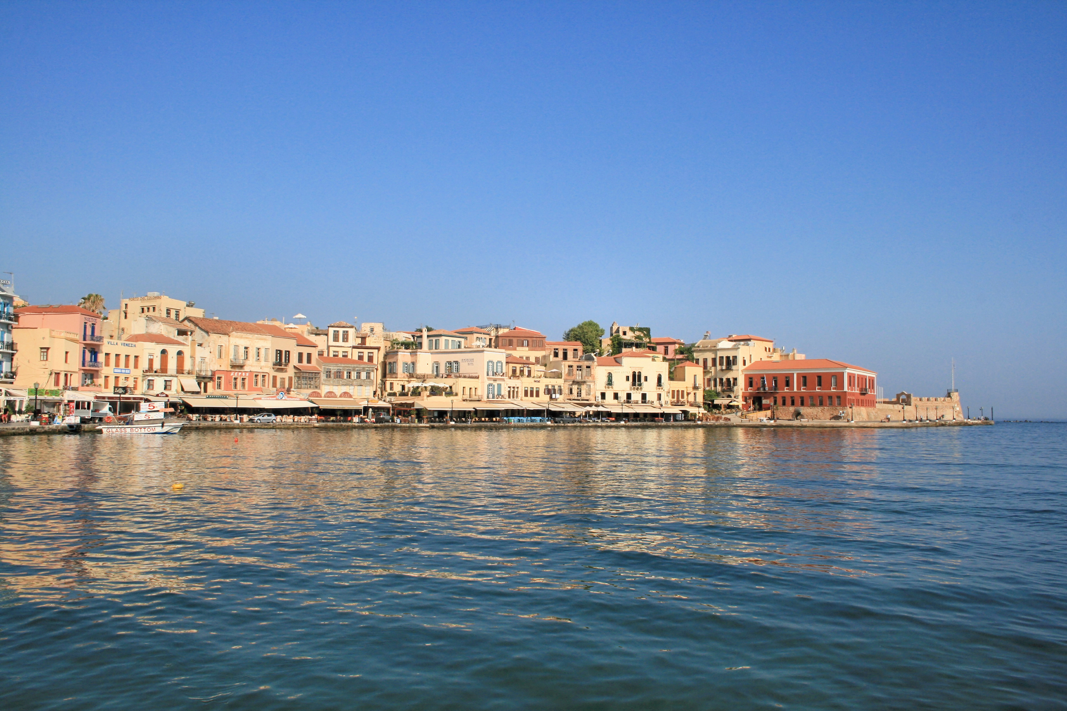 Chania on the island of Crete - Western part of the venetian harbor